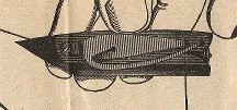 Picture of White Peerless B/C shuttle, from accompanying user manual